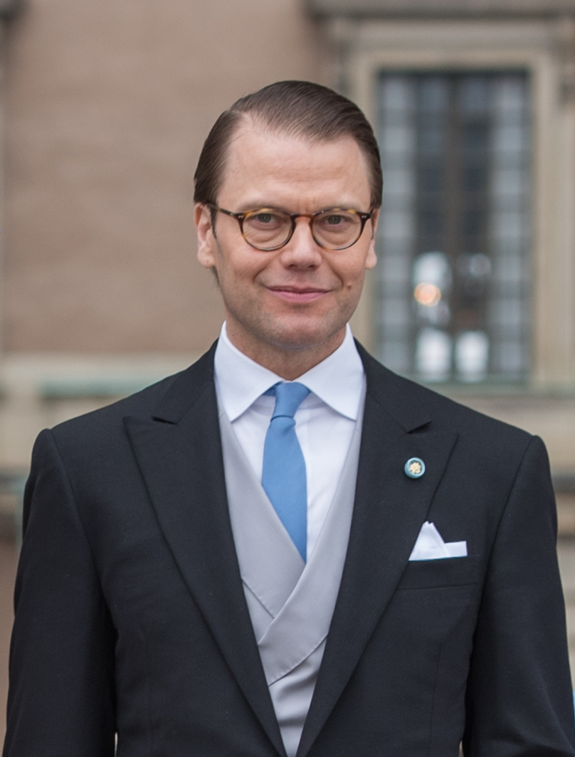 Prince Daniel, Duke of Västergötland, at the christening of his son Prince Oscar, Duke os Skane